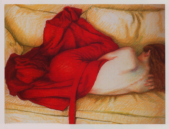 Mireille the actress